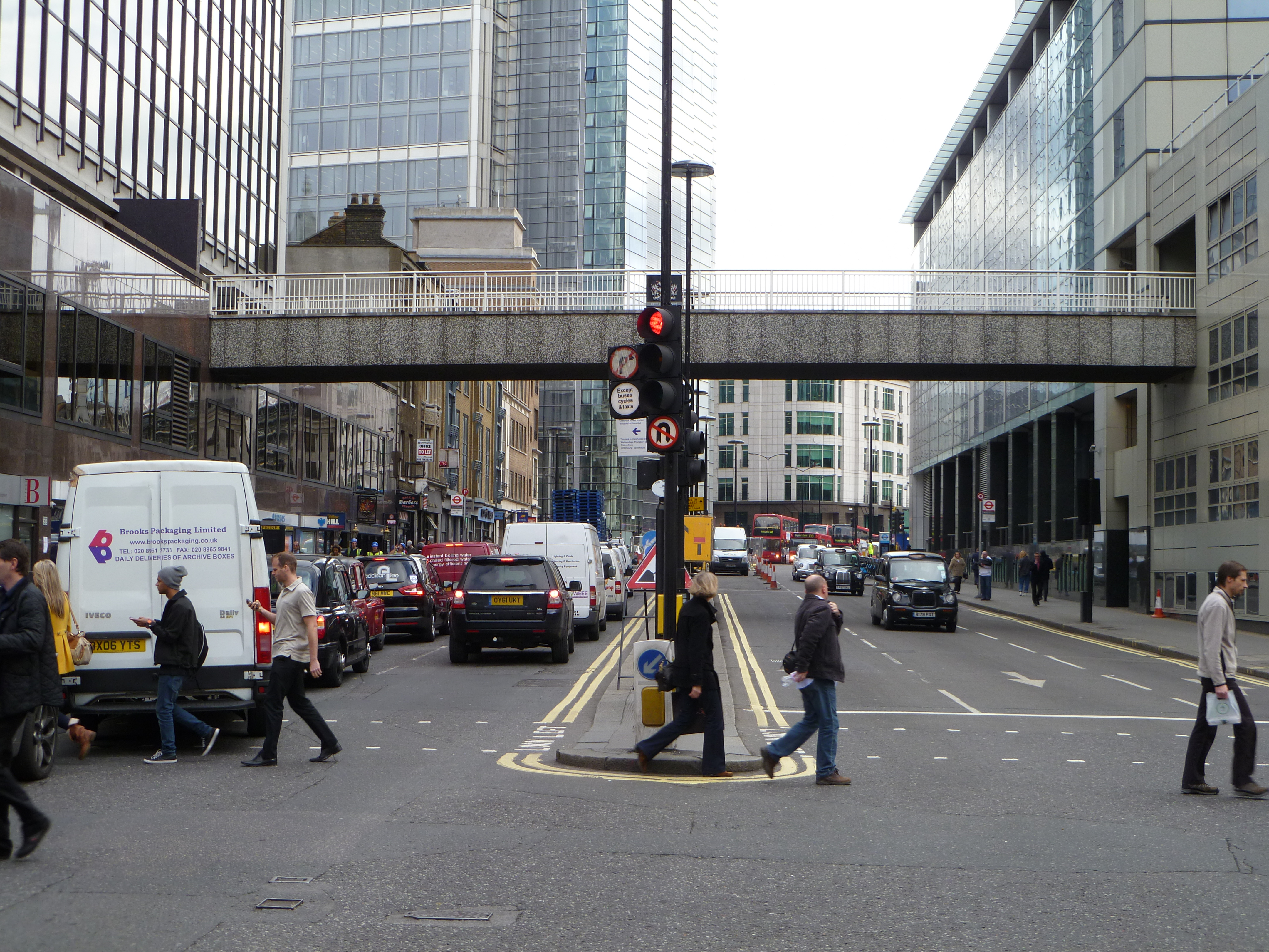 Looking east up Wormwood Street in the City of London